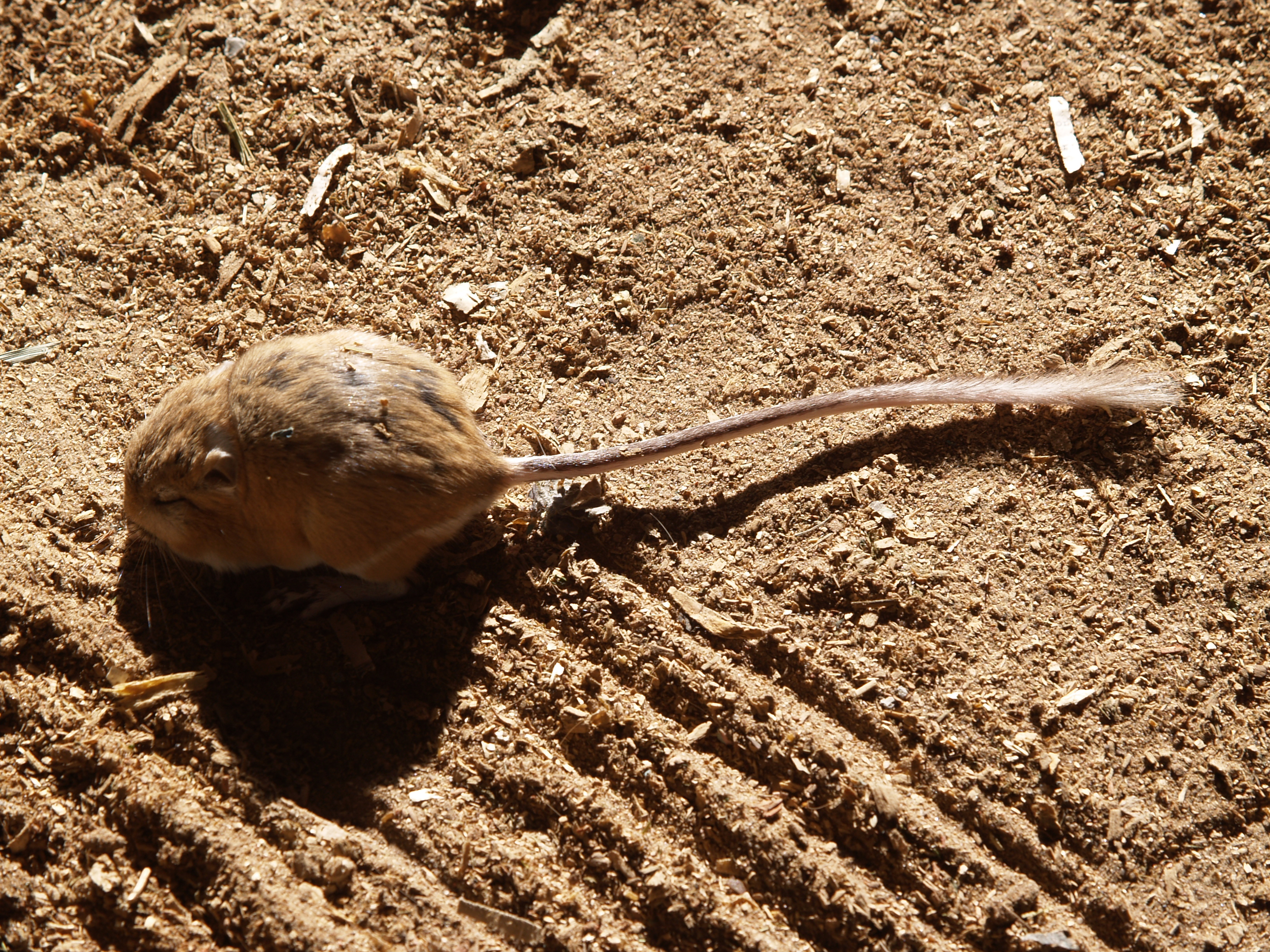 I love these little guys. On a moonlit night they can sometimes be seen dancing. Found this one moribund near a horse's stall. p4142588